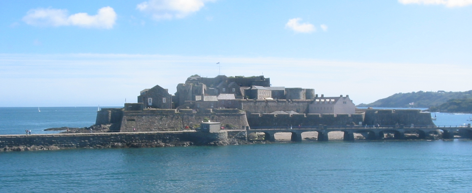 Castle Cornet, Saint Peter Port, Guernsey, May 2009